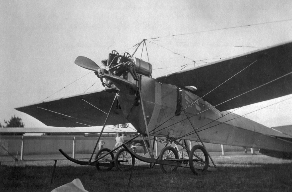 Douglas Mawson's Vickers R.E.P. Type Monoplane No. 1, before the accident that ended her flying career.